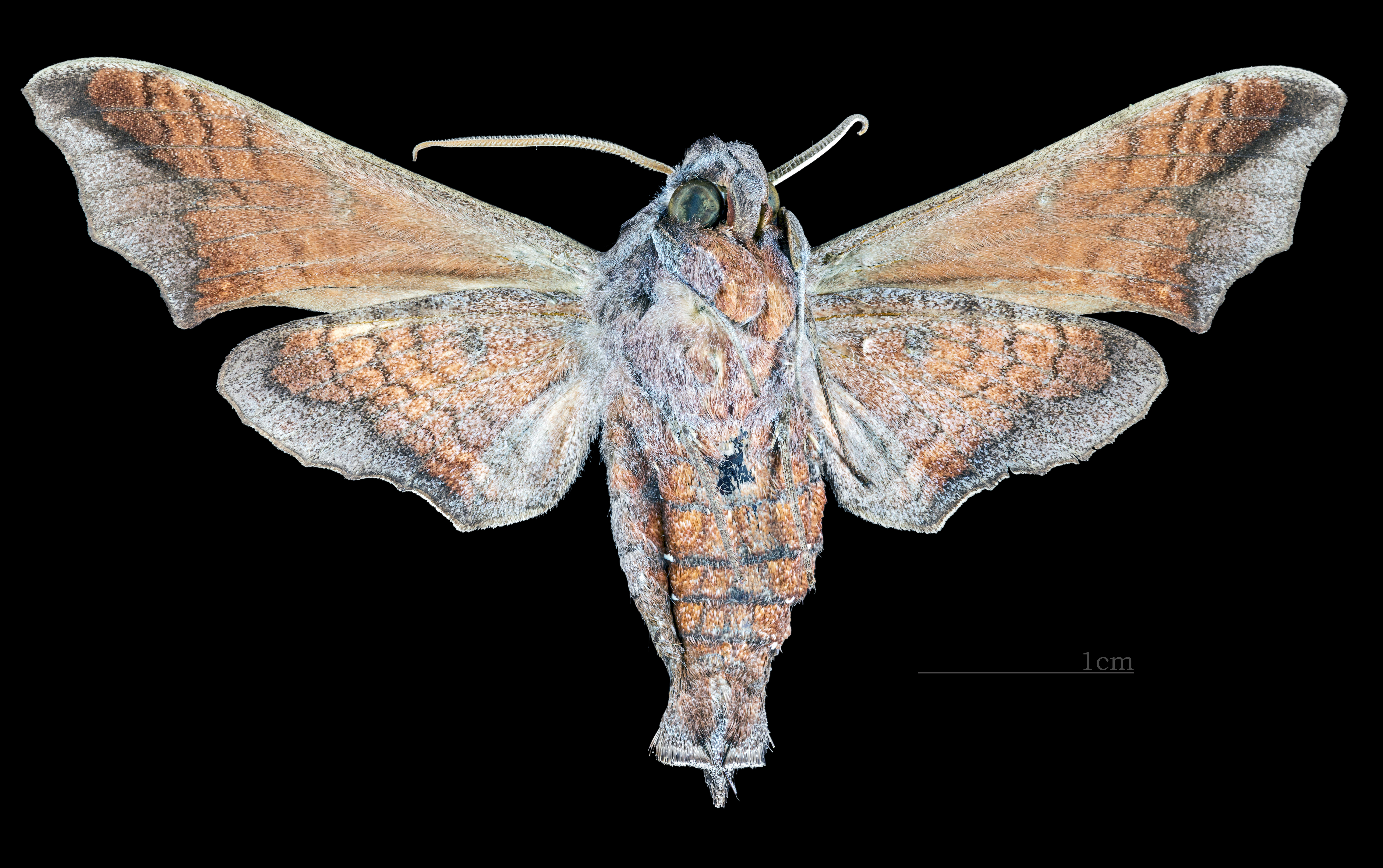 Nyceryx continua - △ Ventral side Collection of the Mathematician Laurent Schwartz